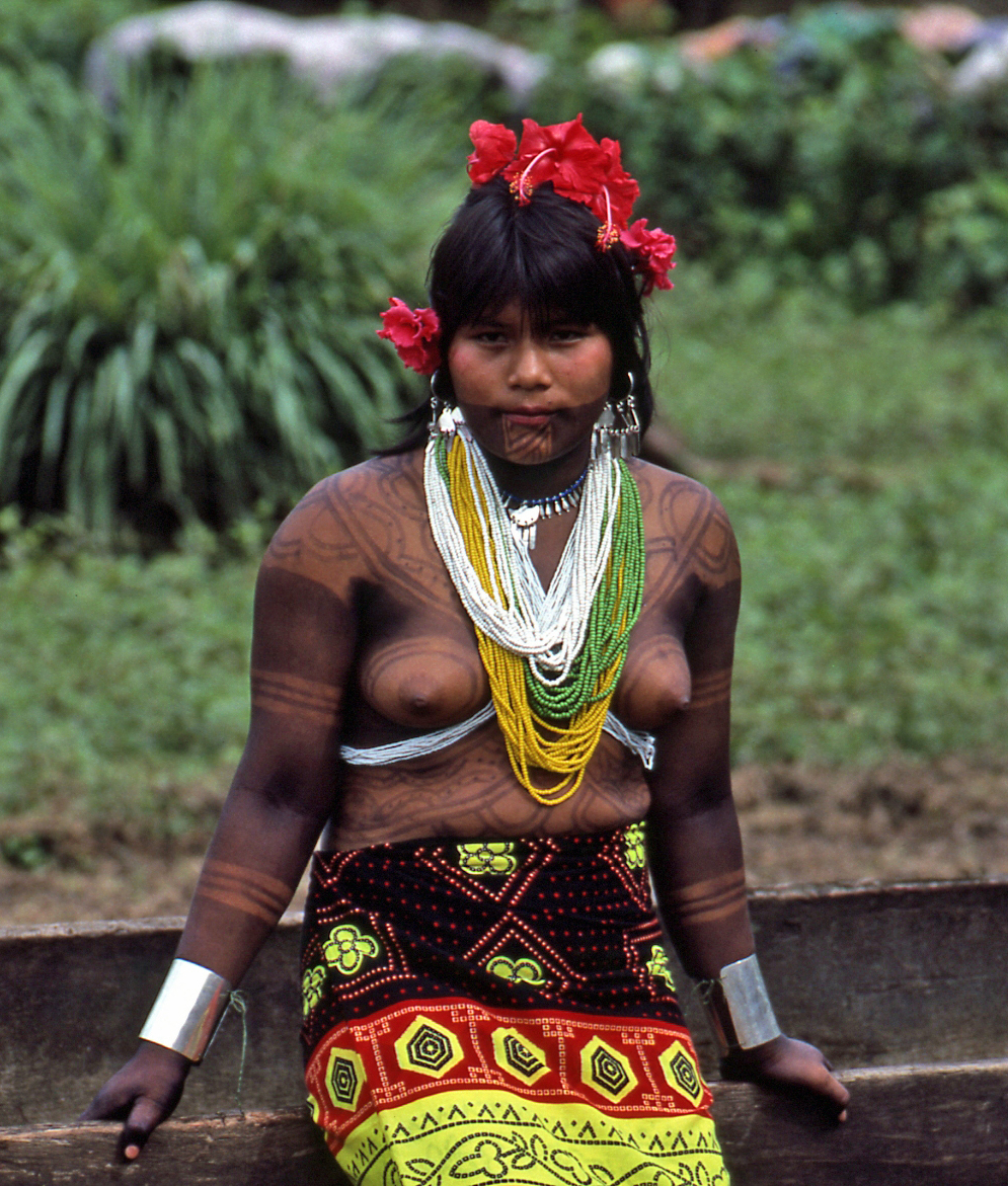 Choco Indian in Panama